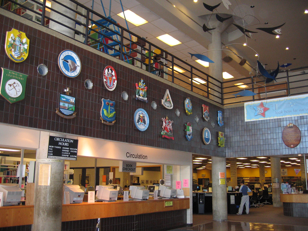 Queen Elizabeth II Library, Memorial University of Newfoundland